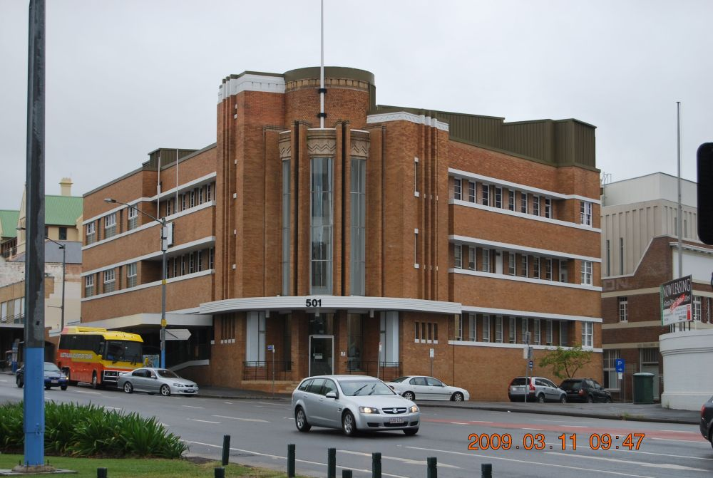 Credit Union Australia Building (2009)